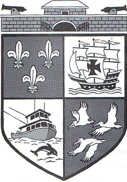 The Dauphin Island Crest.